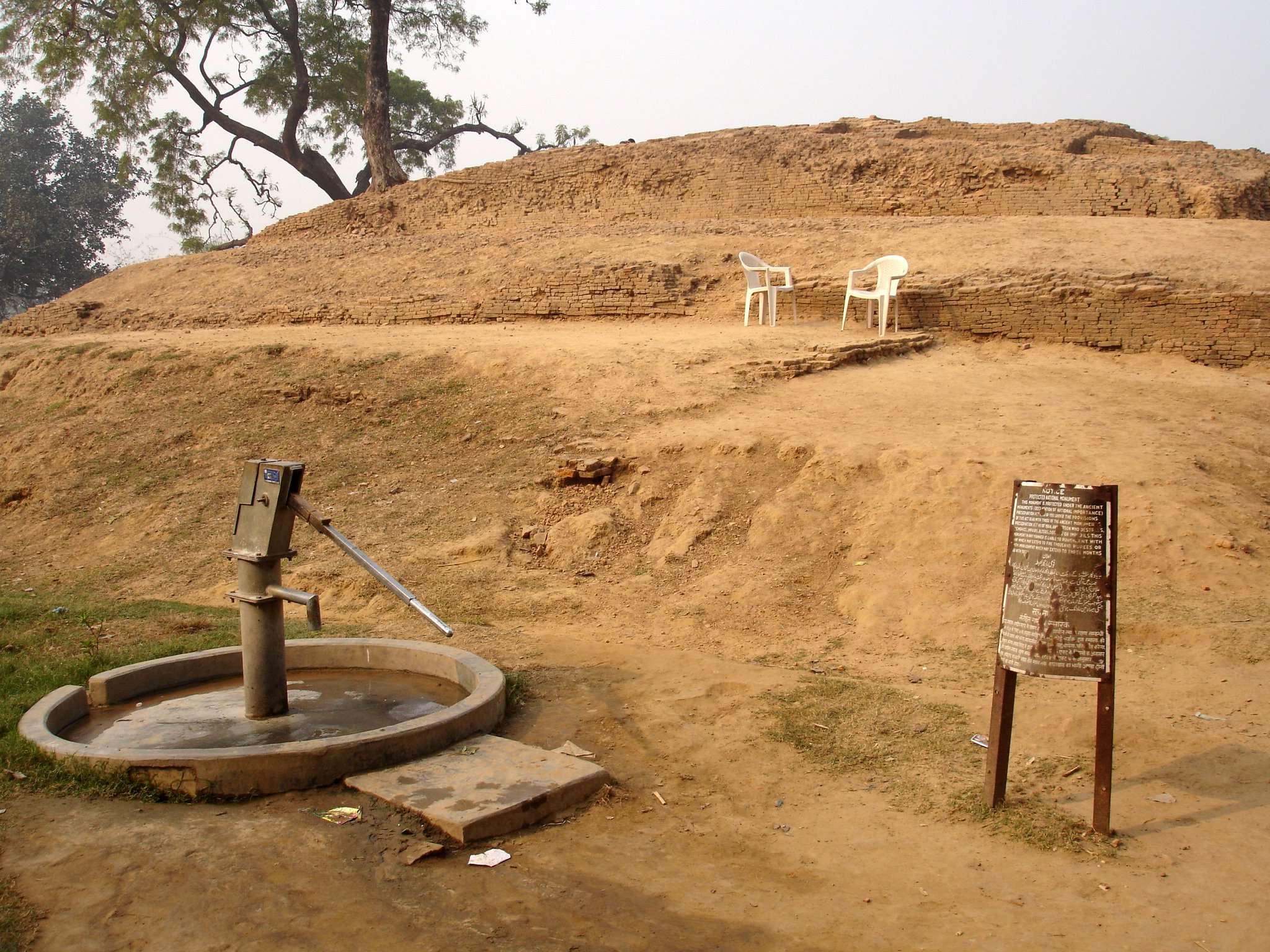 Site of Cunda's house, at Pava, 15 km east of Kushinagar, Uttar Pradesh, India. This is the place where Buddha ate his last meal. A stupa was afterwards built on the site of Cunda's house, where Buddha ate his last meal.